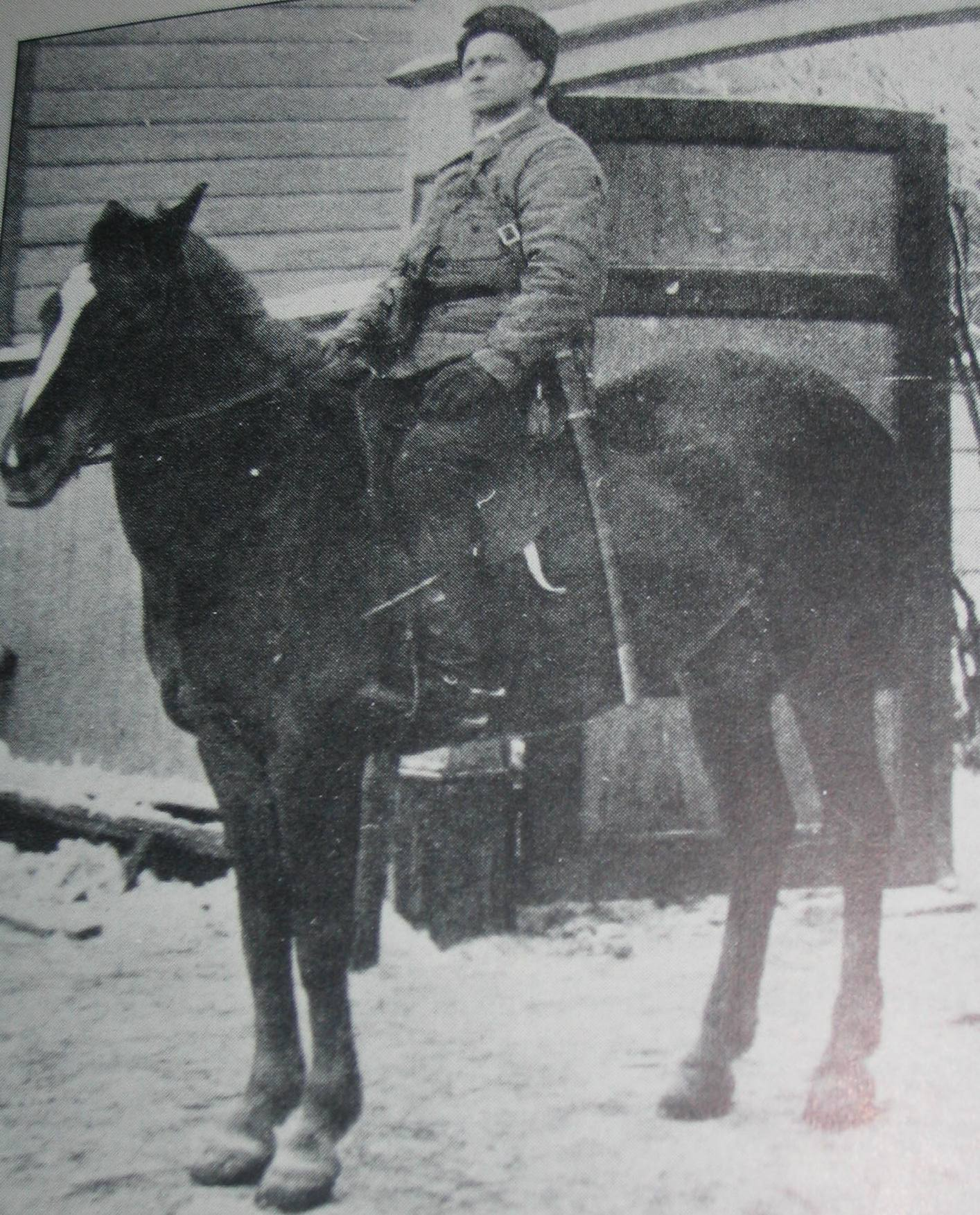 Finnish red guard leader Viktor Ripatti